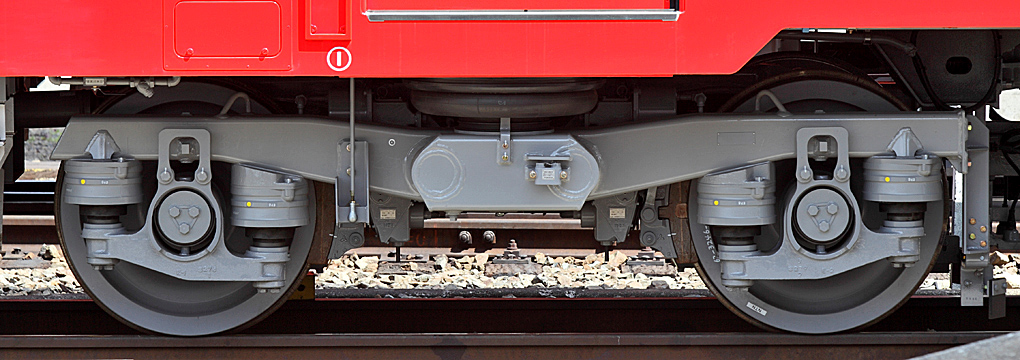 Type NF01DD Bogie truck of Aizu Railway AT-700 series DMU (AT-701)